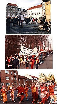 First photo: Iraq peace demonstration 2003, Esbjerg, Denmark. Two next photos: Peace demonstrations in the 1980ties